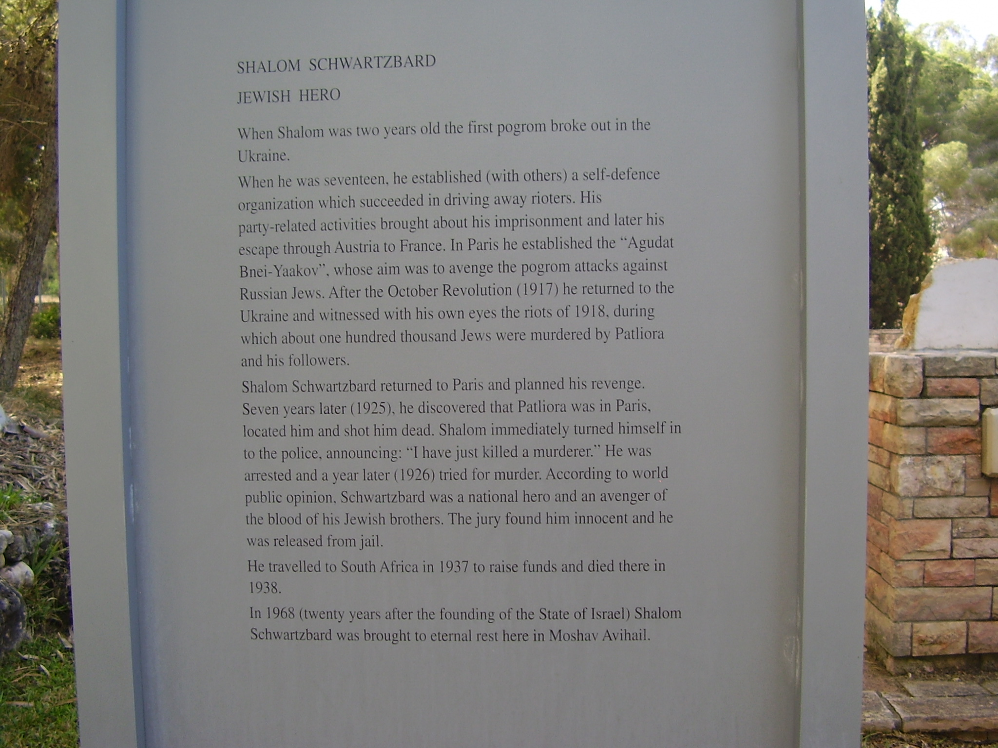 memorial plate near shalom schwartzbard grave in avihayil, israel